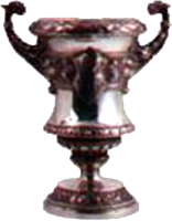 Campionat de Catalunya. Digitally enhanced and with alpha channel.